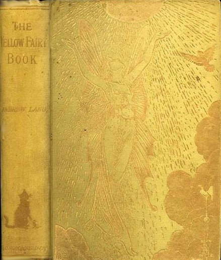 Cover of the first edition of The Yellow Fairy Book, published 1894 Source: Leonard Roberts Bookseller